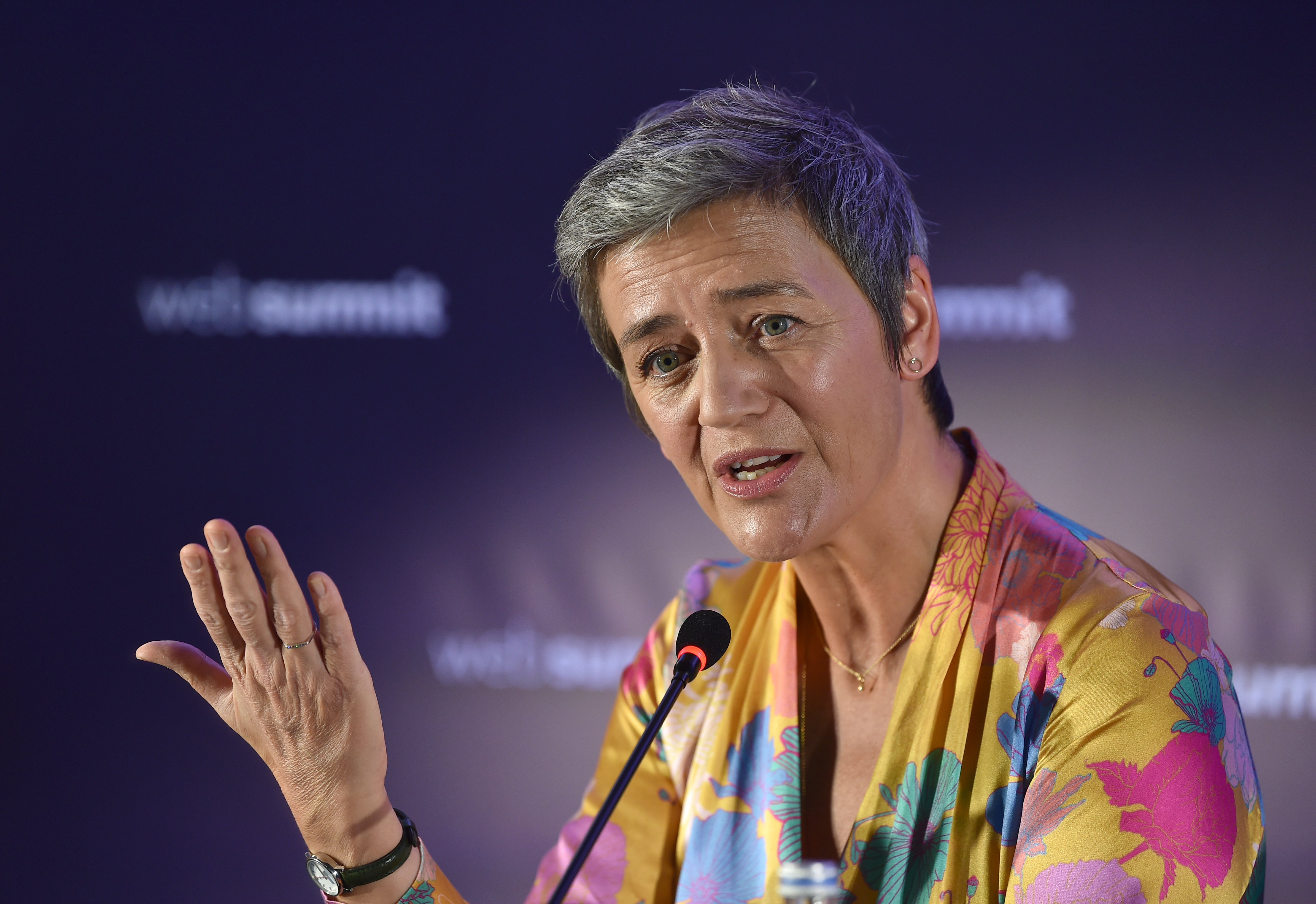 7 November 2018; Margrethe Vestager, European Commission, during a press conference during day two of Web Summit 2018 at the Altice Arena in Lisbon, Portugal. Photo by Diarmuid Greene/Web Summit via Sportsfile